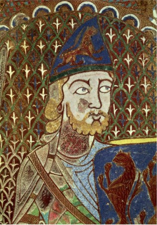 Geoffrey V, Count of Anjou